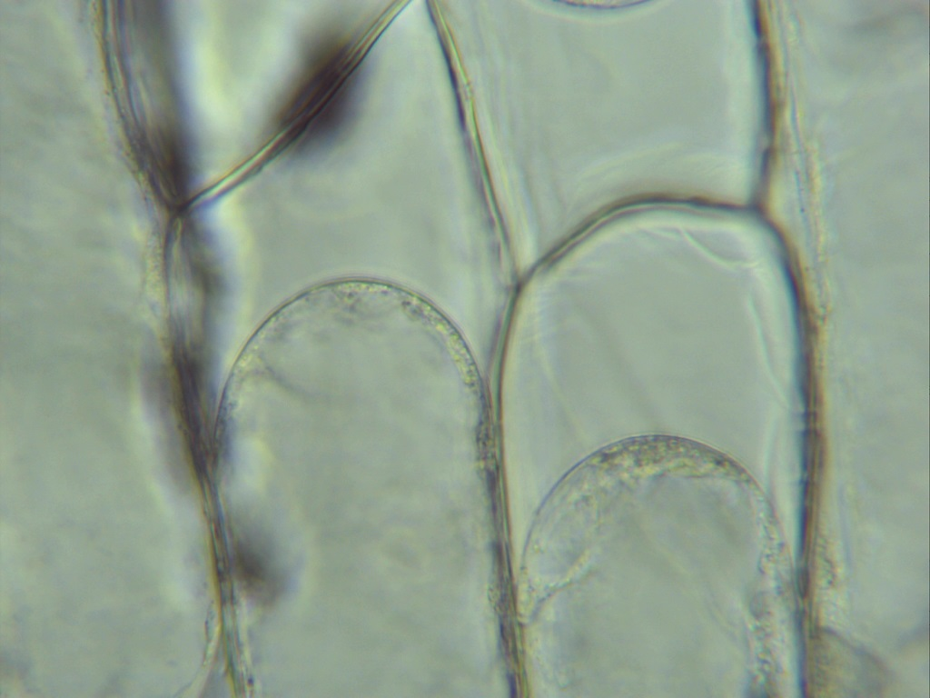 Plant Cell undergoing Plasmolysis (x4000 magnification)